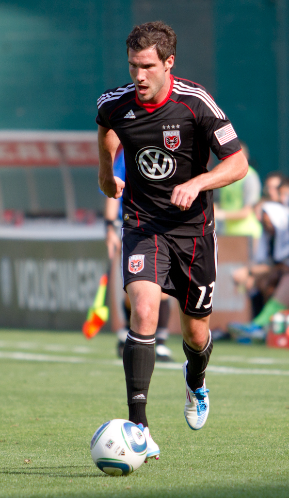 D.C. United midfielder, Chris Pontius dribbles the ball during a match against AFC Ajax on May 22, 2011 at RFK Stadium in Washington, D.C..